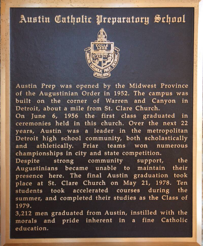 Commemorative Plaque about Austin Catholic Preparatory School, Detroit, Michigan